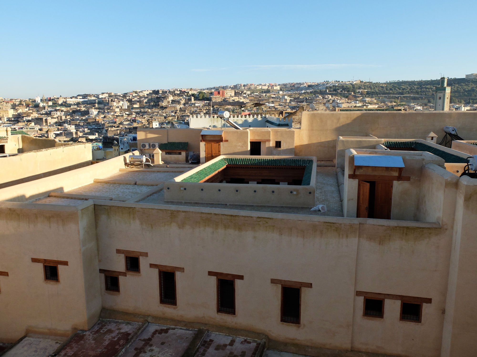 The Foundouk Chemmaine (Funduq al-Shama'in) or Foundouk Sbitriyyin, a funduq next to the Qarawiyyin Mosque (and near the mosque gate of the same name), seen from the rooftops. Note: Not sure exactly which Foundouk it is, as both are adjacent but it's hard to find exact information remotely to identify each building.